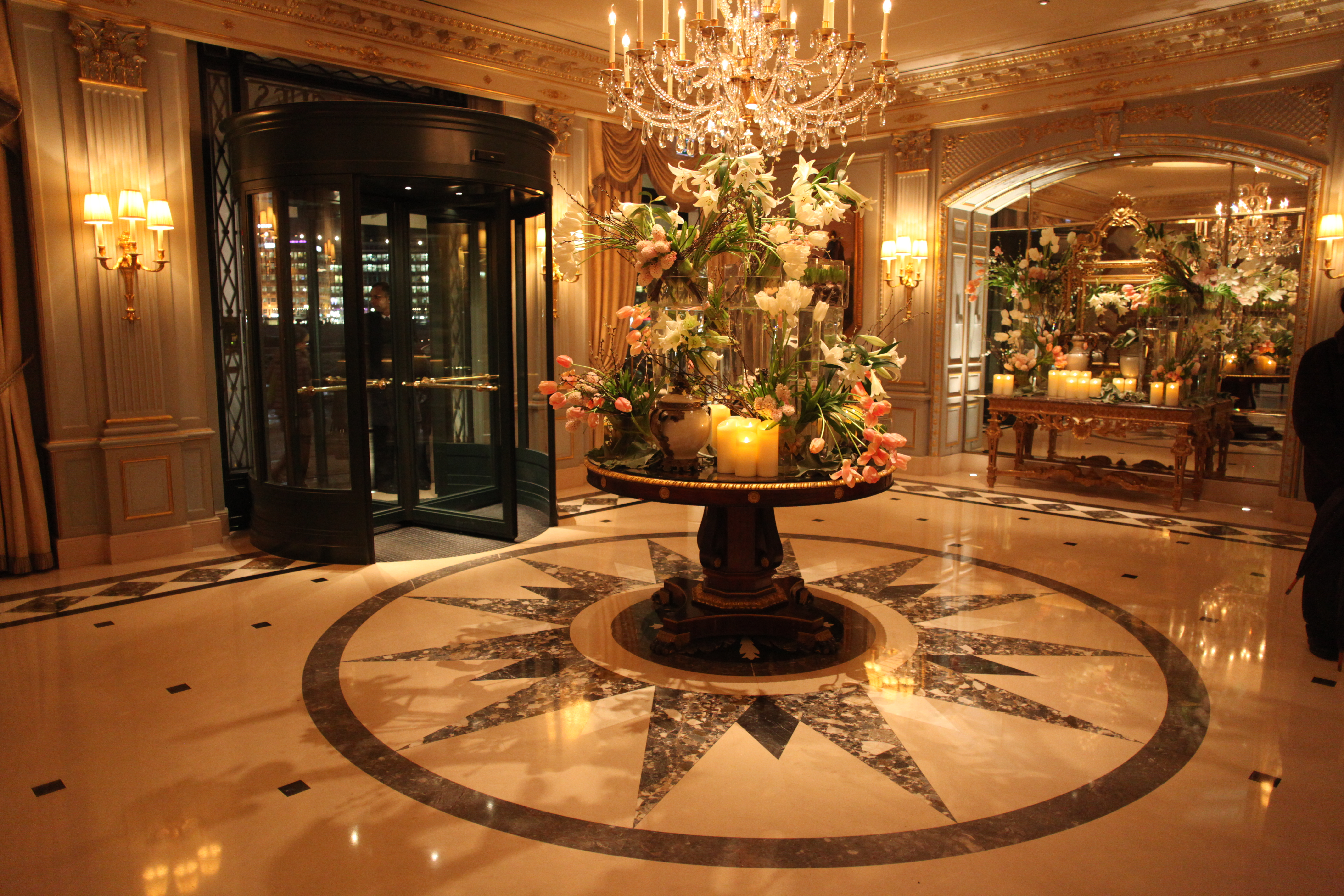 Views of the Hôtel des Bergues (Four Seasons) in Geneva